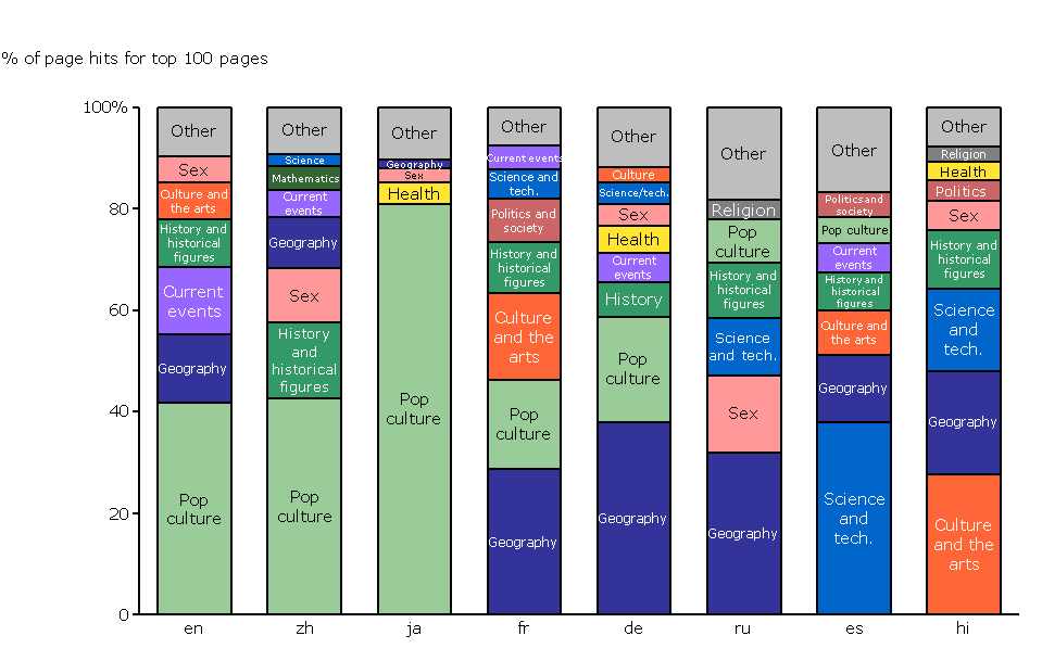 File created for WMF strategic planning